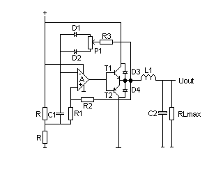 Simple switched supply